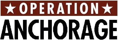 The logotype for "Operation: Anchorage" in "Fallout 3".